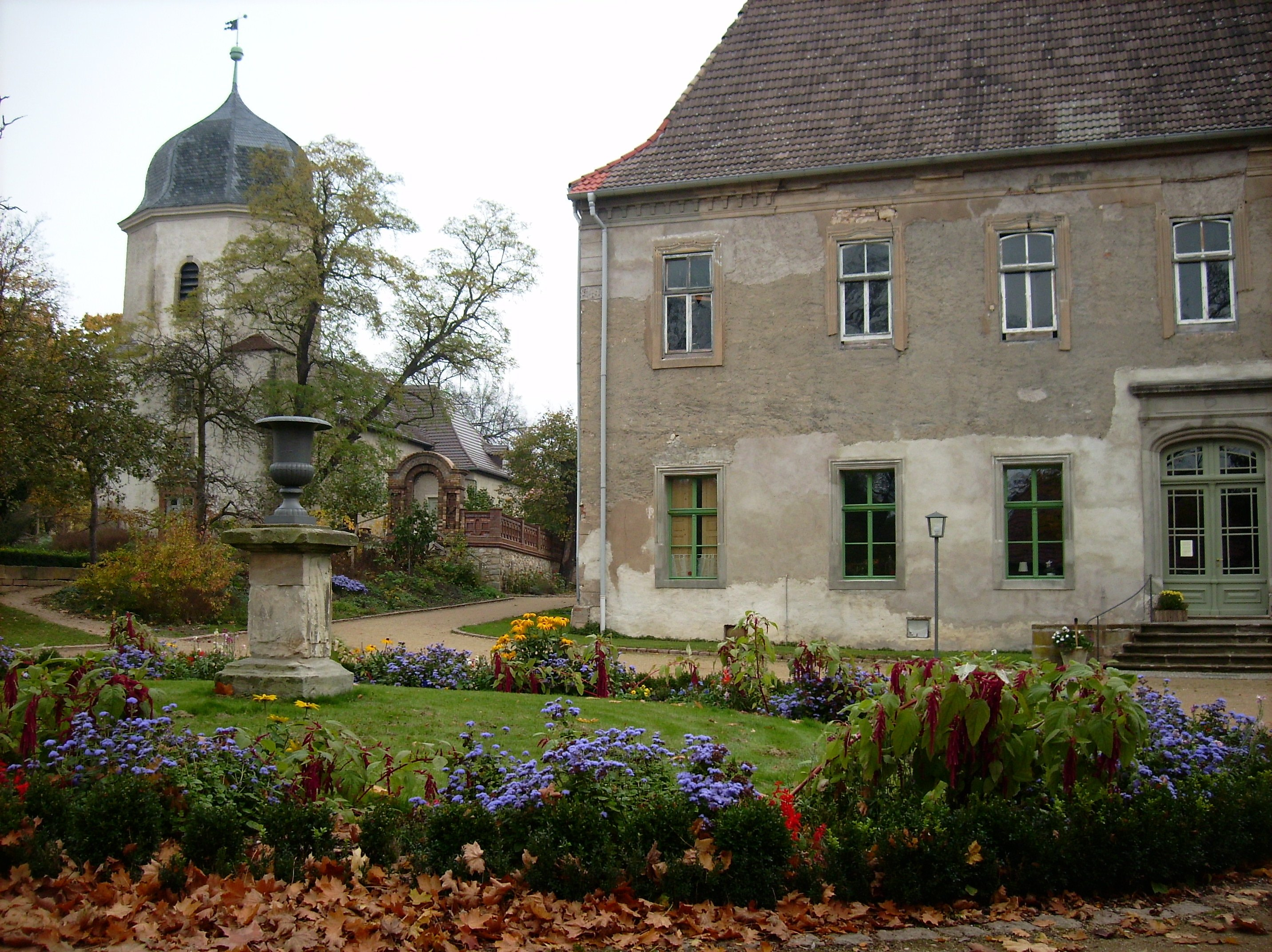 View from the north entry of the park to St. Anne Church in Dieskau (Kabelsketal, district of Saalekreis, Saxony-Anhalt)